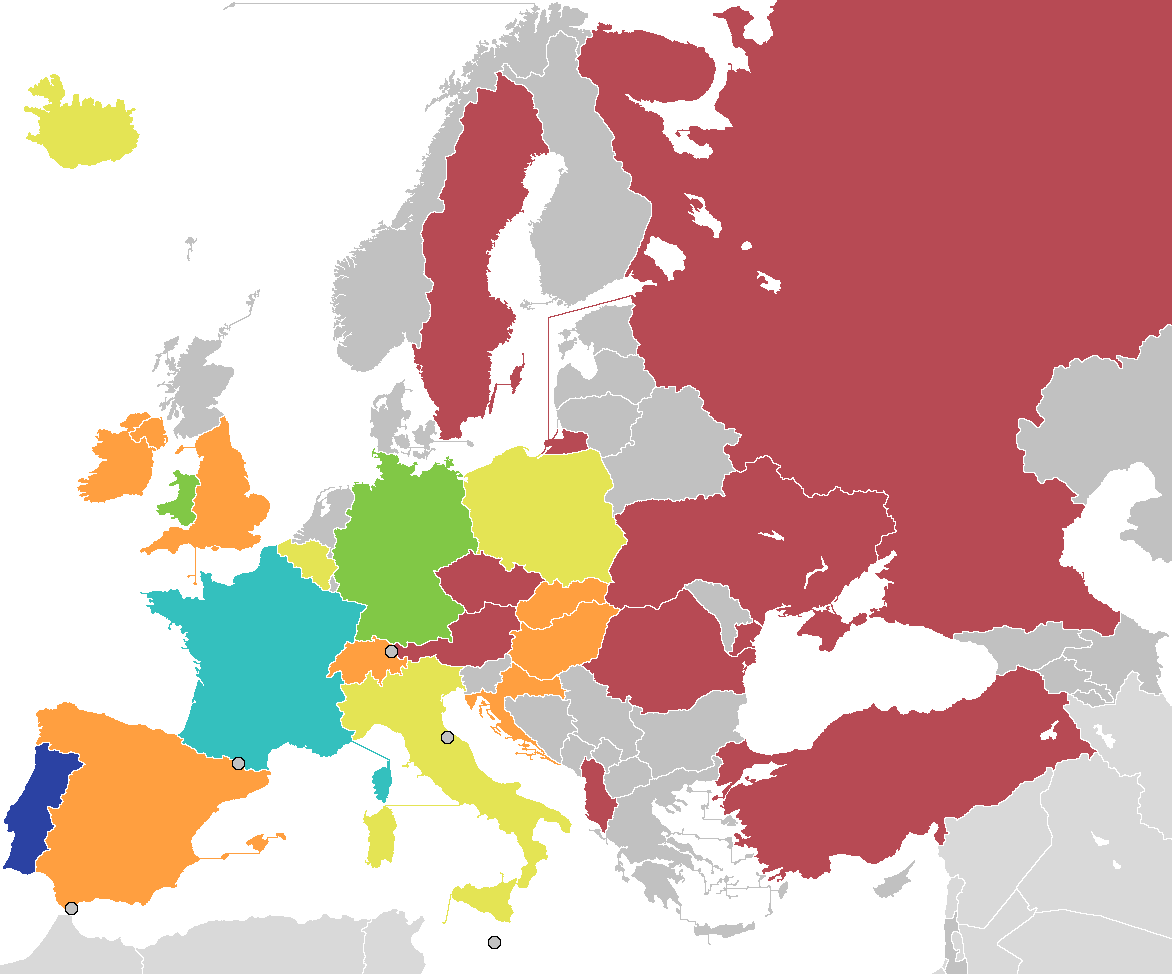 A map showing the rounds reached by each team participating in UEFA Euro 2016.